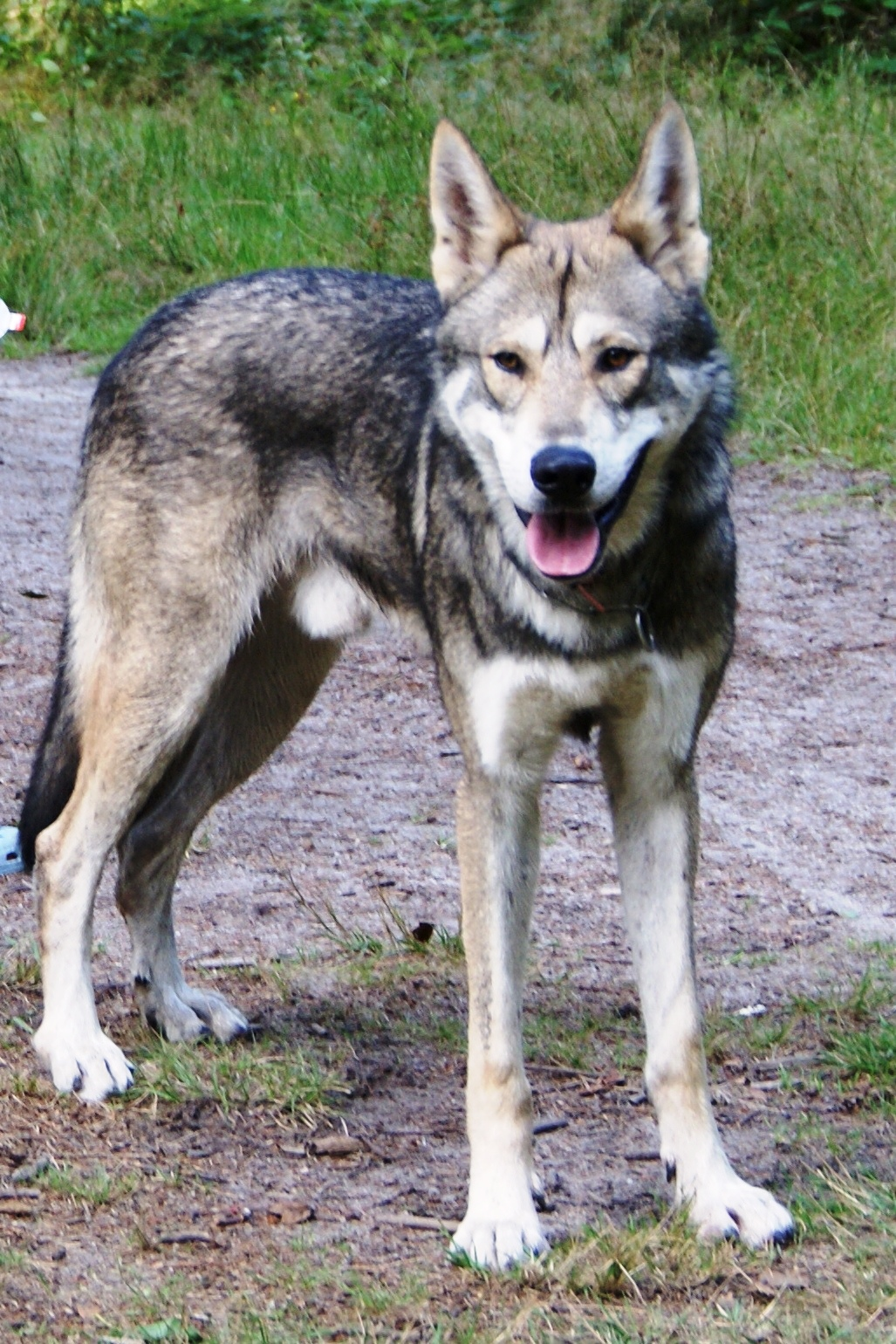 Saarloos Wolfdog male